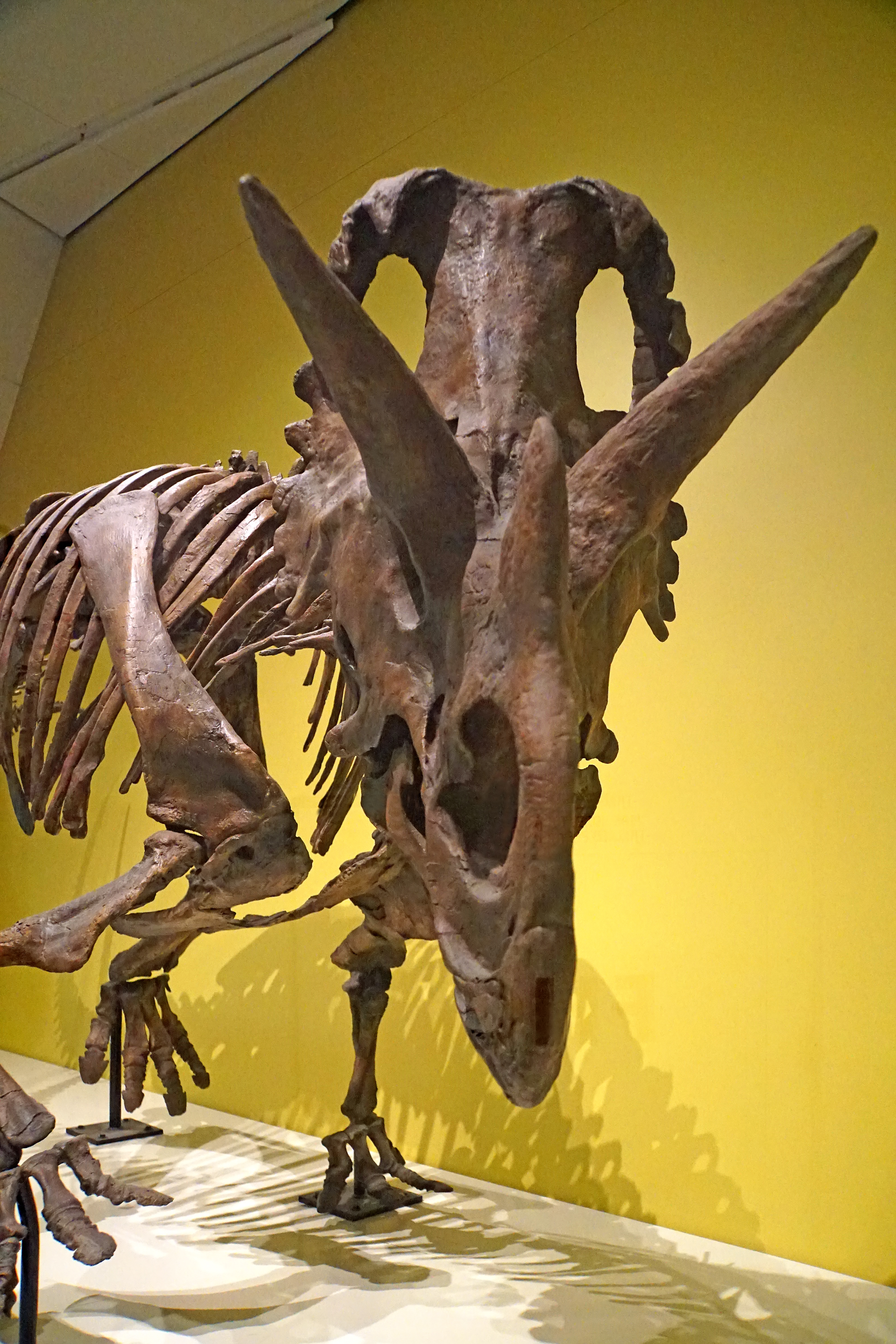 Wendiceratops weighted about one ton and had a length of about six meters (20ft). It lived between 79 and 78.7million years ago.